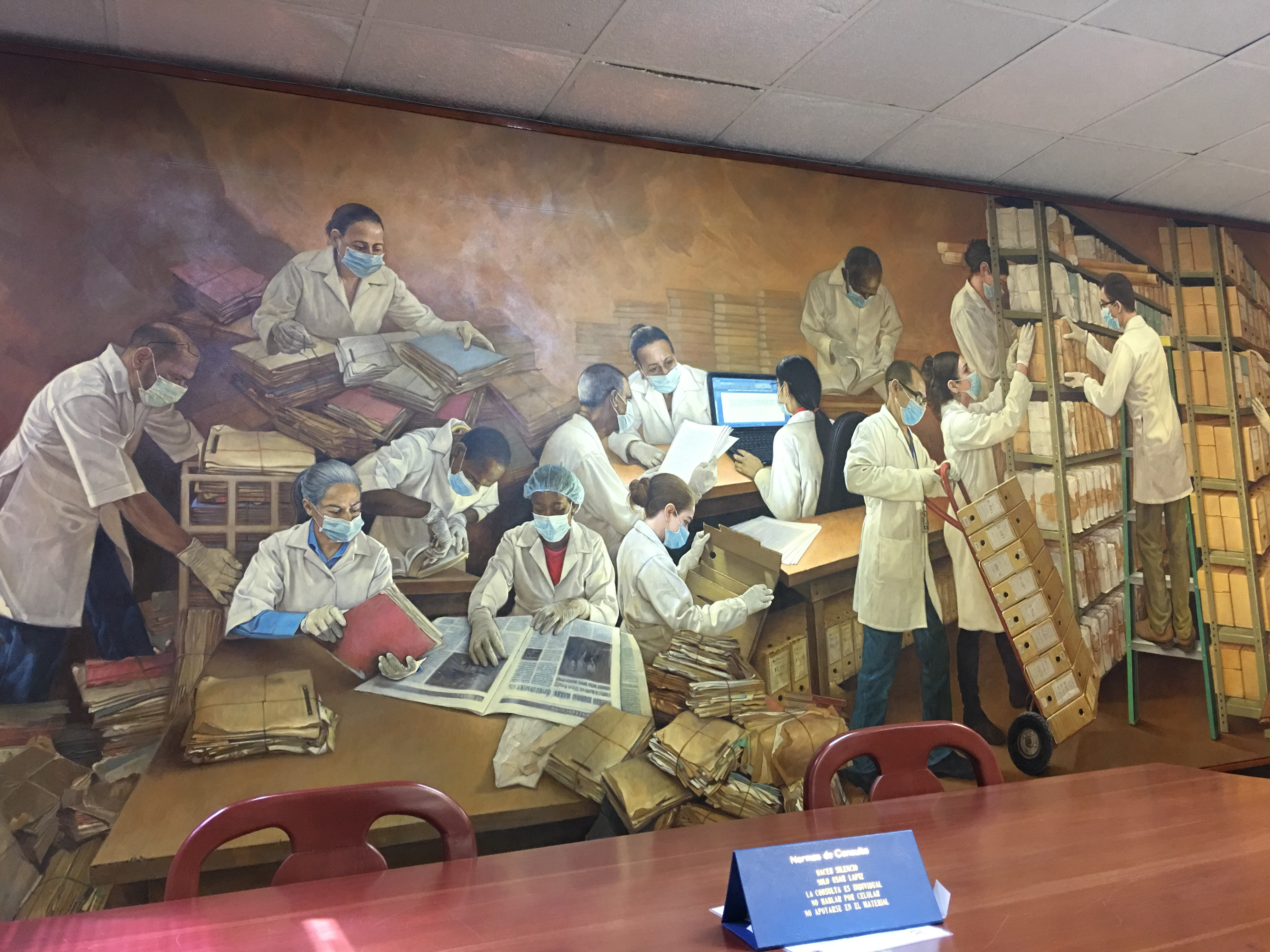 DO AGN Mural inside of the General National Archive in Santo Domingo, Dominican Republic